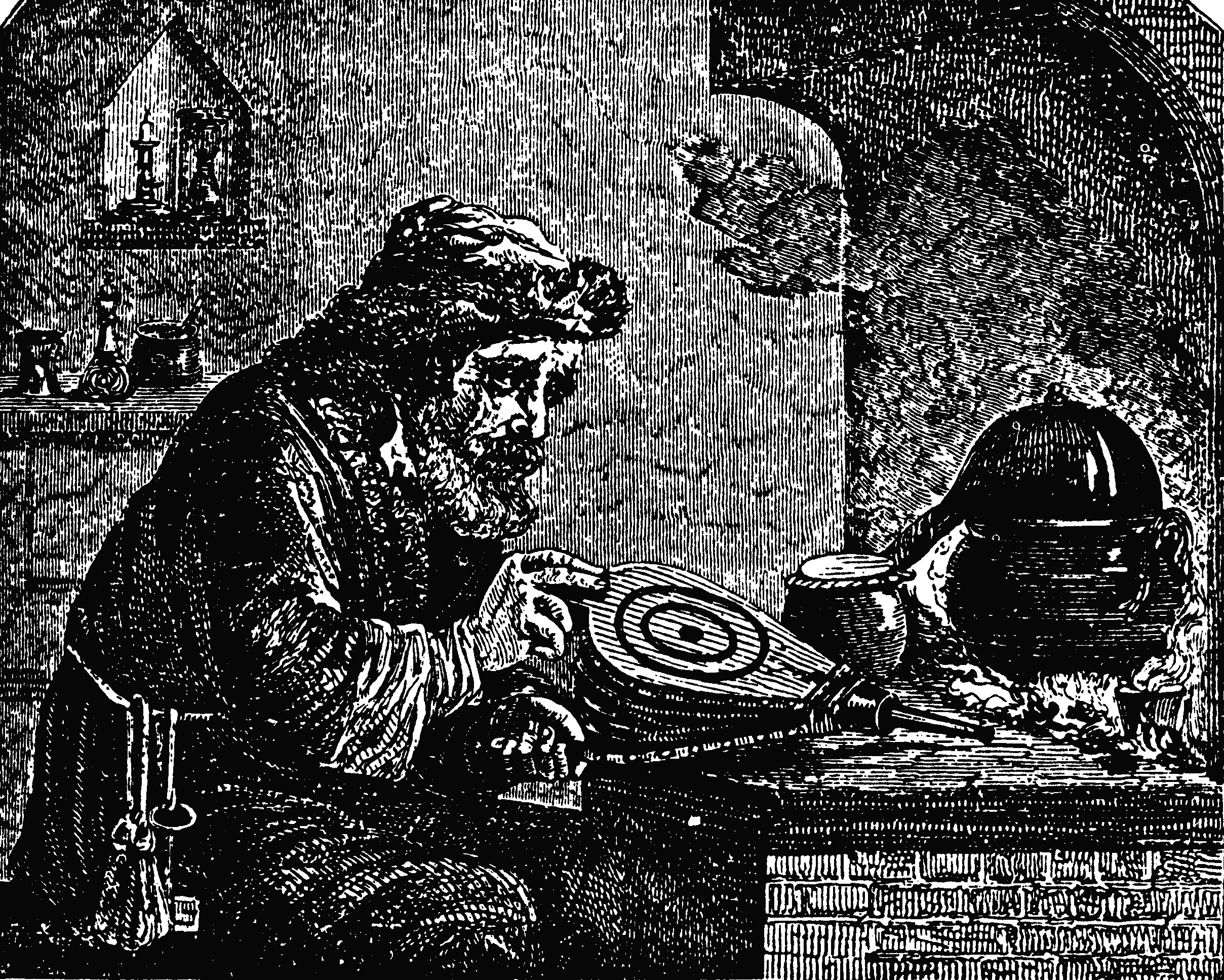 Alchemist